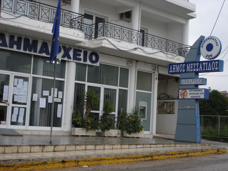 Messatis city hall, Achaea, Greece